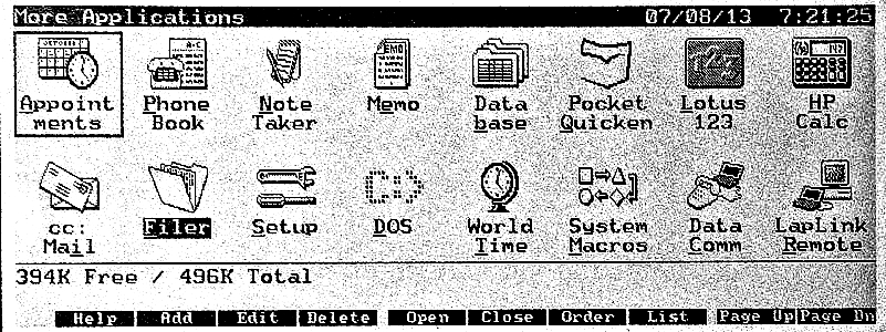 The Application Manager for HP LX series palmtops.